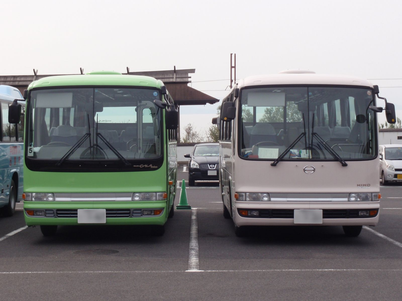 Hino Melpha and Isuzu GALAmio